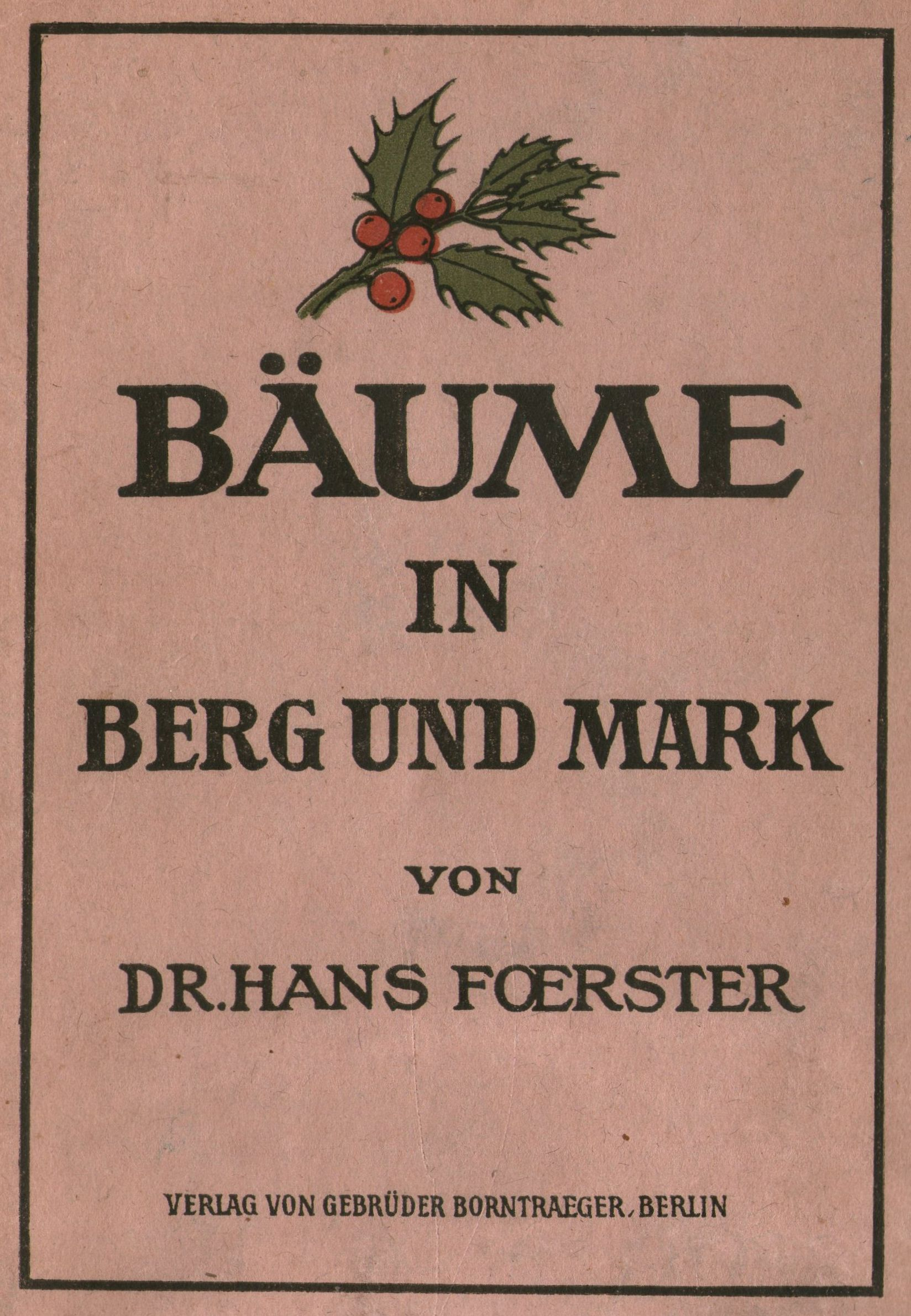 Book cover: Hans Foerster: Bäume in Berg und Mark. Berlin, Bornträger 1918.